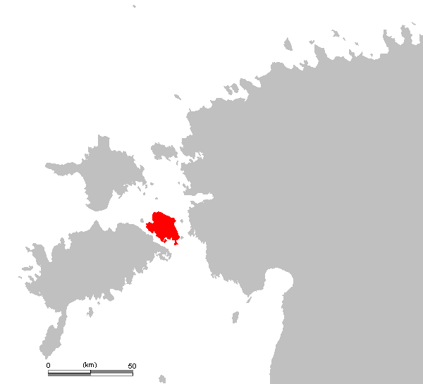 Muhu on the map of Estonia.